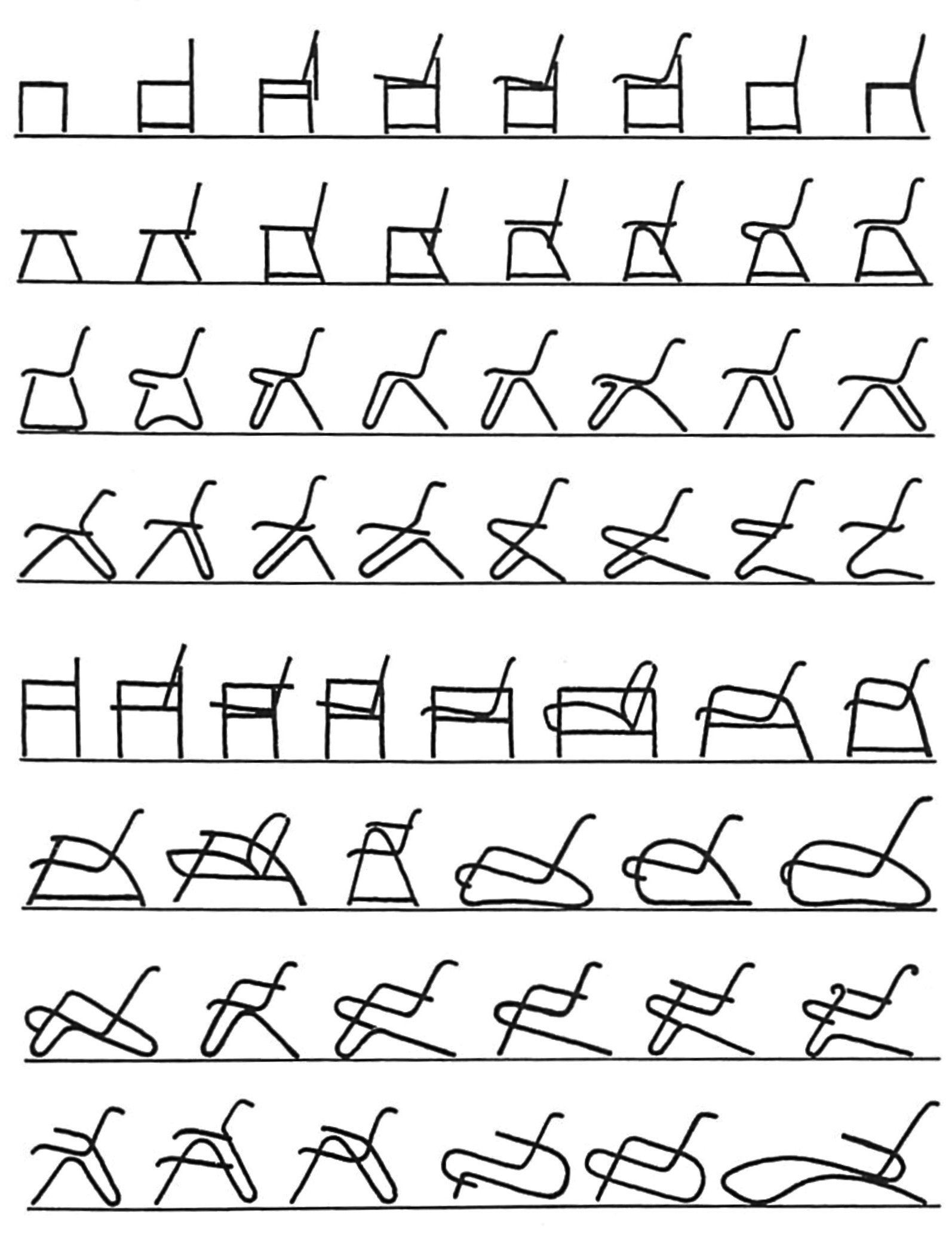 Type forms of chairs by Erich Dieckmann (1896–1944)